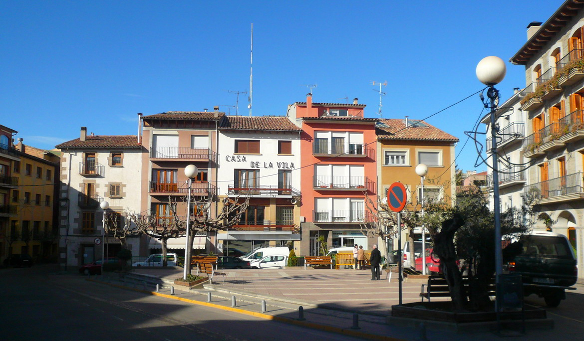 Prats de Lluçanès, Osona, Catalonia